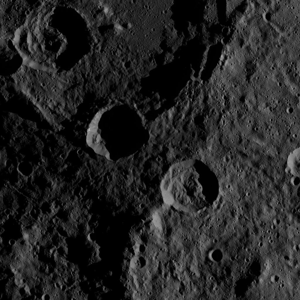 This southern hemisphere scene from dwarf planet Ceres encompasses parts of the craters Mondamin and Darzamat. Mondamin, which is 78 miles (126 kilometers) wide, is the large crater located in the top half of the image. Darzamat, at 57 miles (92 kilometers) wide, is at bottom-right. Dawn took this image on Oct. 19, 2016, from its second extended-mission science orbit (XMO2), at a distance of about 920 miles (1,480 kilometers) above the surface. The image resolution is about 460 feet (140 meters) per pixel. Dawn's mission is managed by JPL for NASA's Science Mission Directorate in Washington. Dawn is a project of the directorate's Discovery Program, managed by NASA's Marshall Space Flight Center in Huntsville, Alabama. UCLA is responsible for overall Dawn mission science. Orbital ATK, Inc., in Dulles, Virginia, designed and built the spacecraft. The German Aerospace Center, the Max Planck Institute for Solar System Research, the Italian Space Agency and the Italian National Astrophysical Institute are international partners on the mission team. For a complete list of mission participants, For more information about the Dawn mission, visit